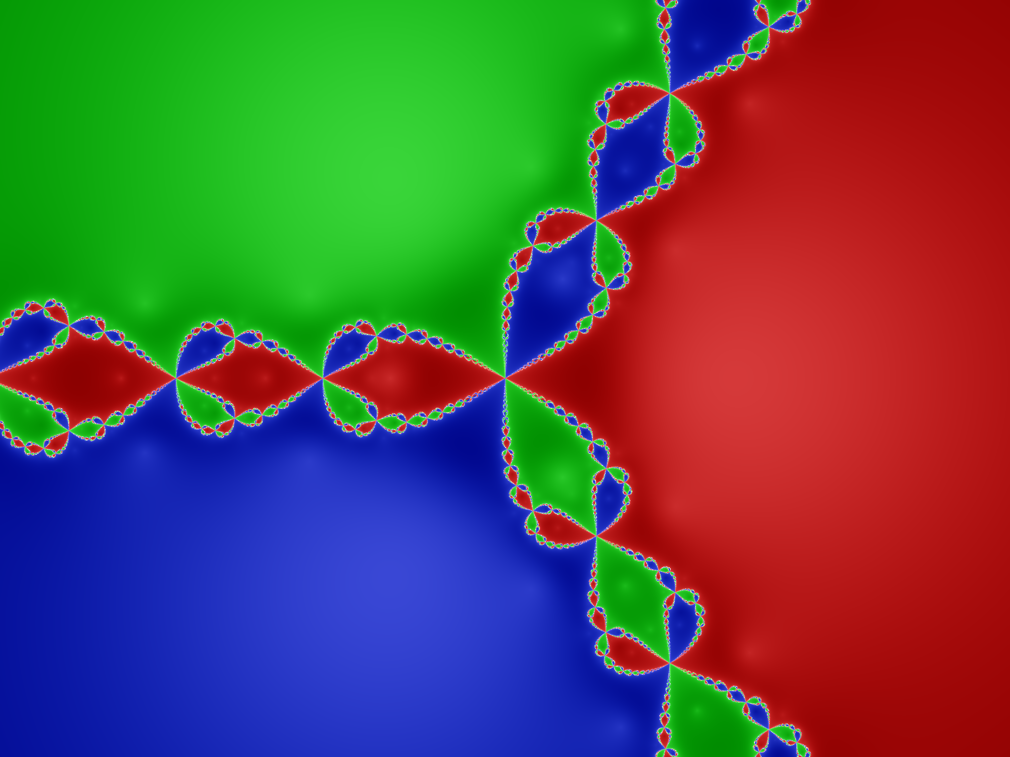 Julia set for the rational function associated to Newton's method for ƒ:z→z3−1, created using Java.